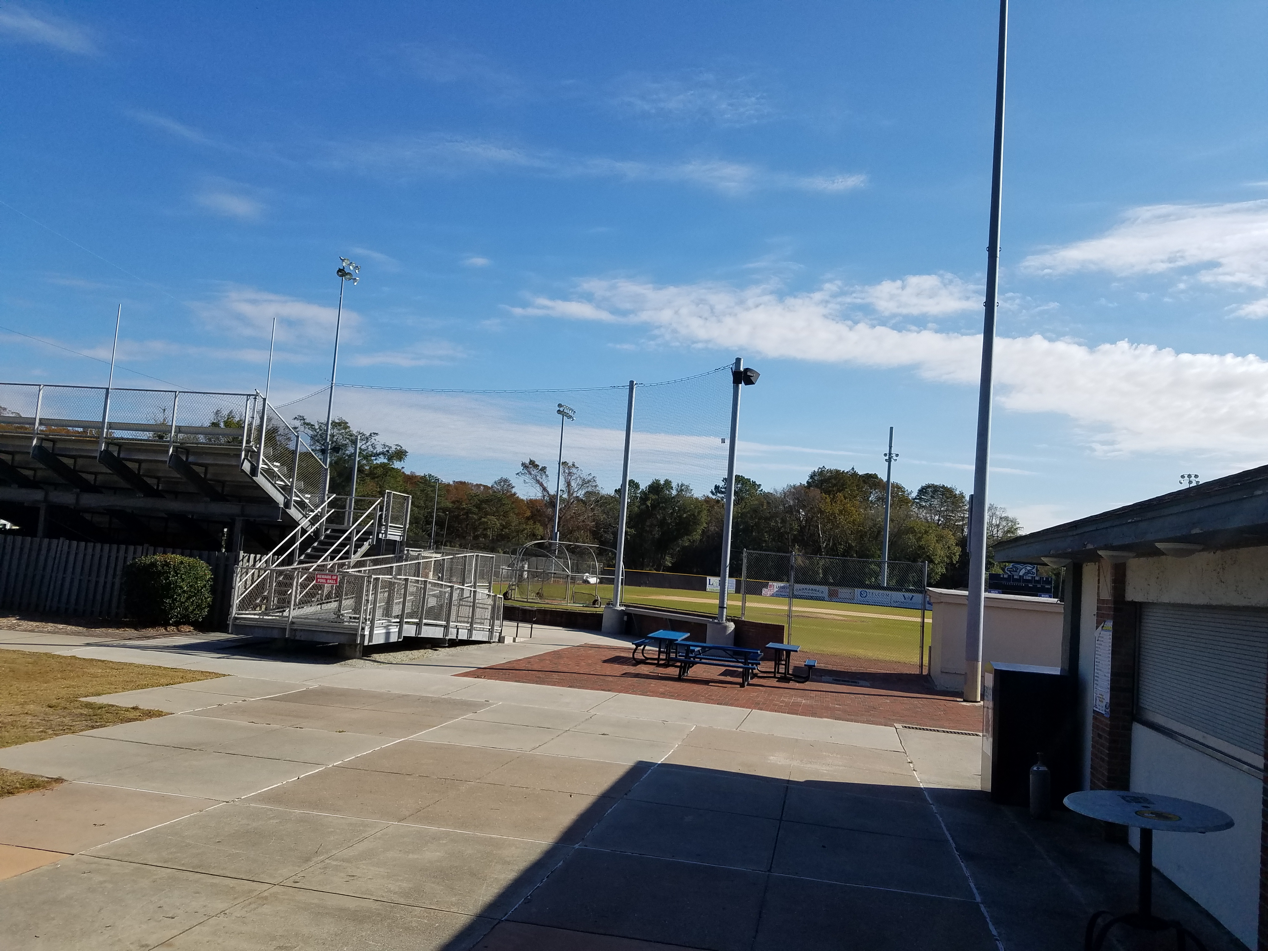 Entrance and concourse area of Buck Hardee baseball field in Wilmington, North Carolina.